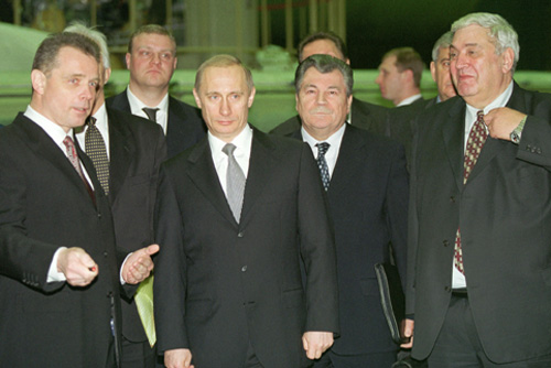 Moscow Visiting the Khrunichev State Research and Production Space Centre. President Putin with Director-General of the Khrunichev Centre Alexander Medvedev (left), presidential aide Yevgeny Shaposhnikov, and head of the Russian Aviation and Space Agency (Rosaviakosmos) Yury Koptev (right) in one of the centre's workshops.